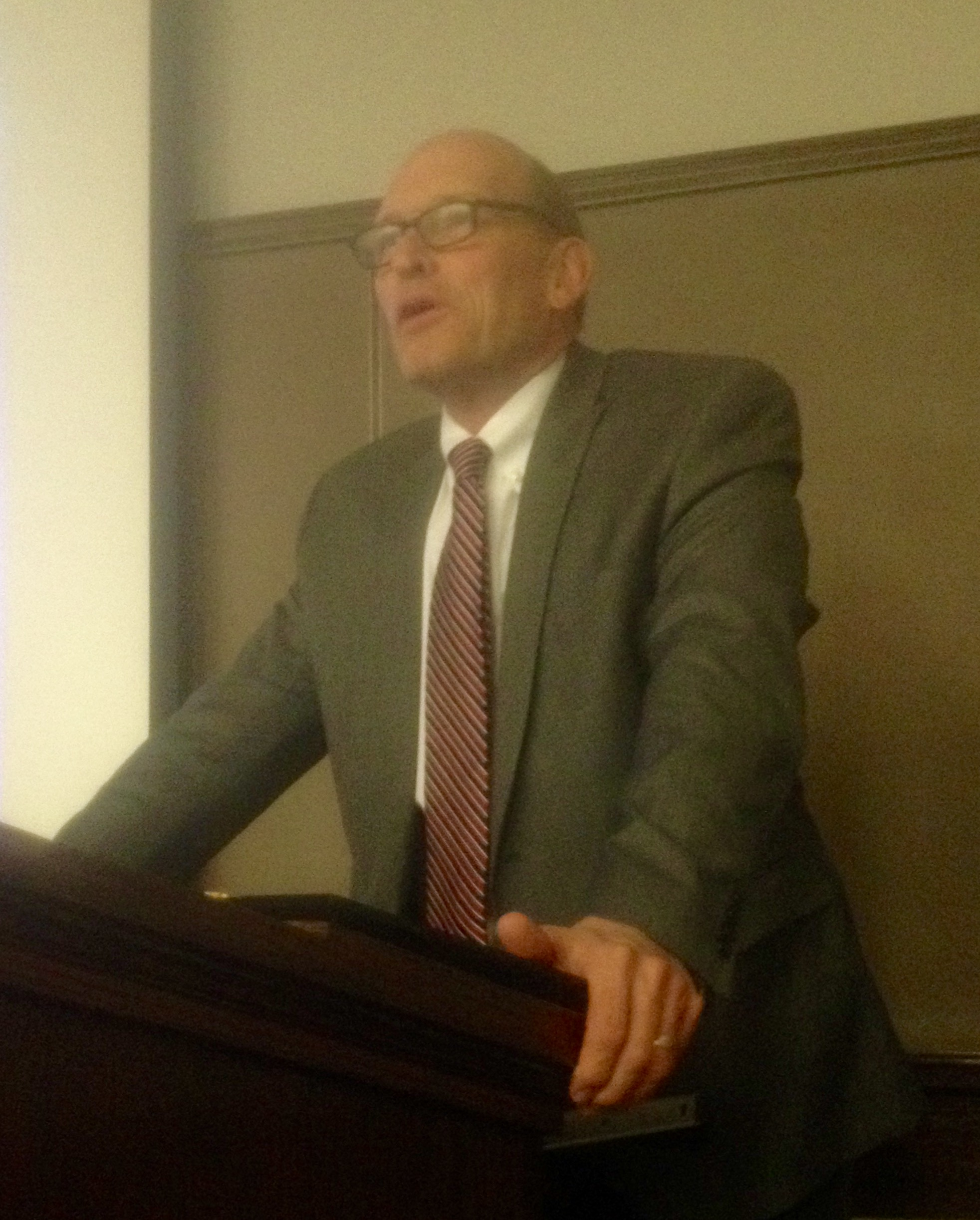 Alexander L. Baugh delivers a presentation about Joseph Smith.